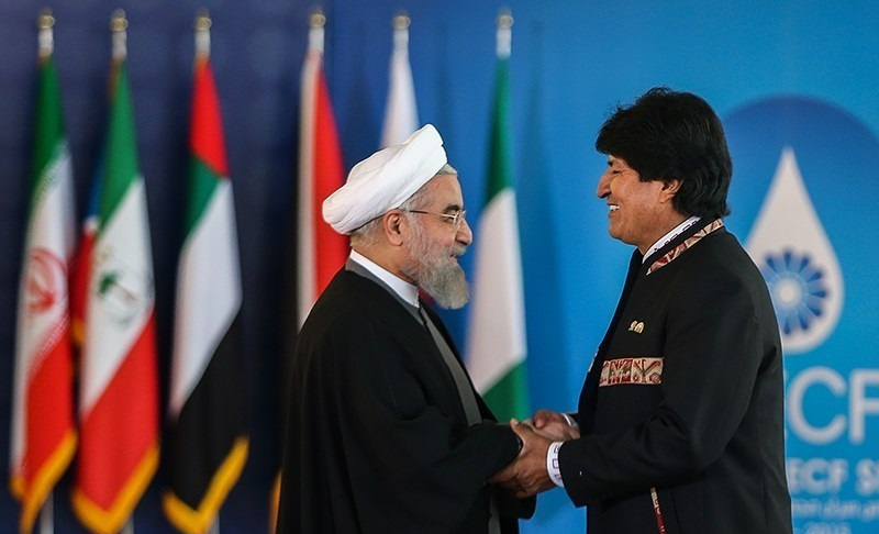 Third GECF summit, Tehran, Iran